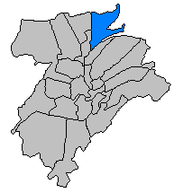 Map of Luxembourg City, Luxembourg, with the boundaries of the city's twenty-four quarters demarcated and the quarter of Dommeldange highlighted in blue.